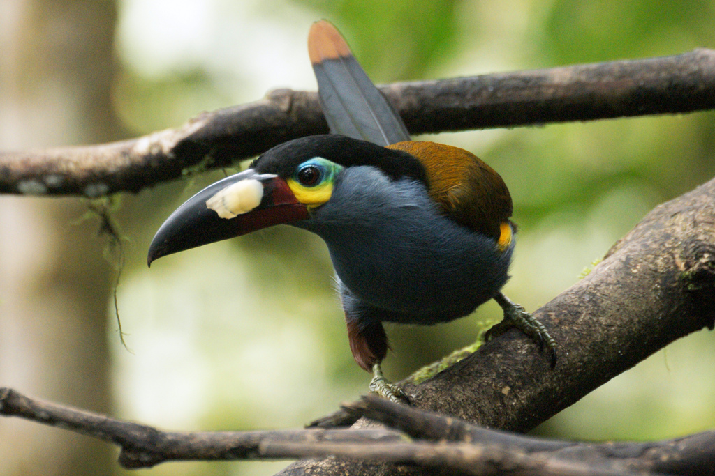 A Plate-billed Mountain Toucan in Ecuador.